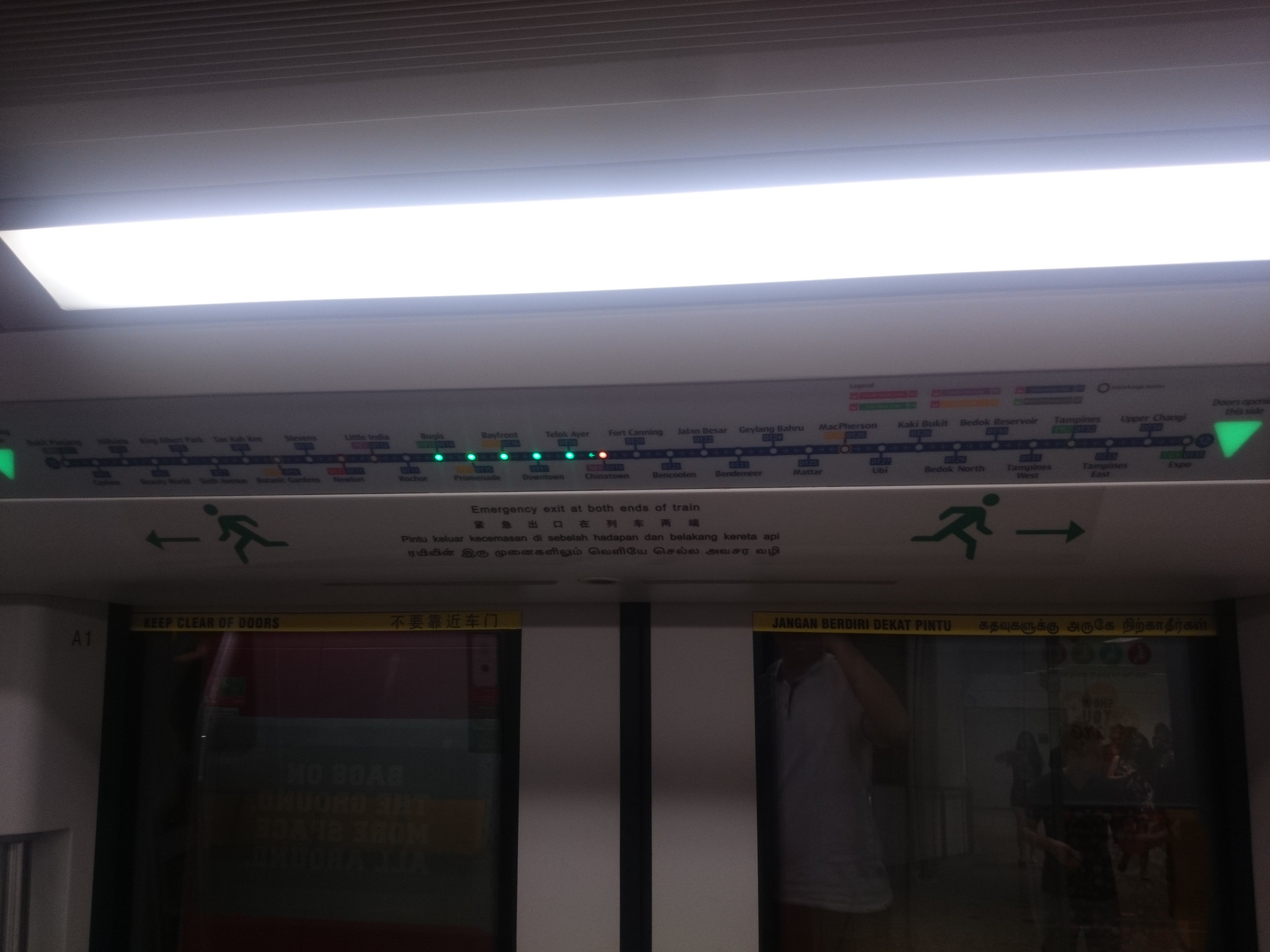 Dynamic Route Map Display in C951 train, display showing the train is leaving Chinatown and arriving Telok Ayer.